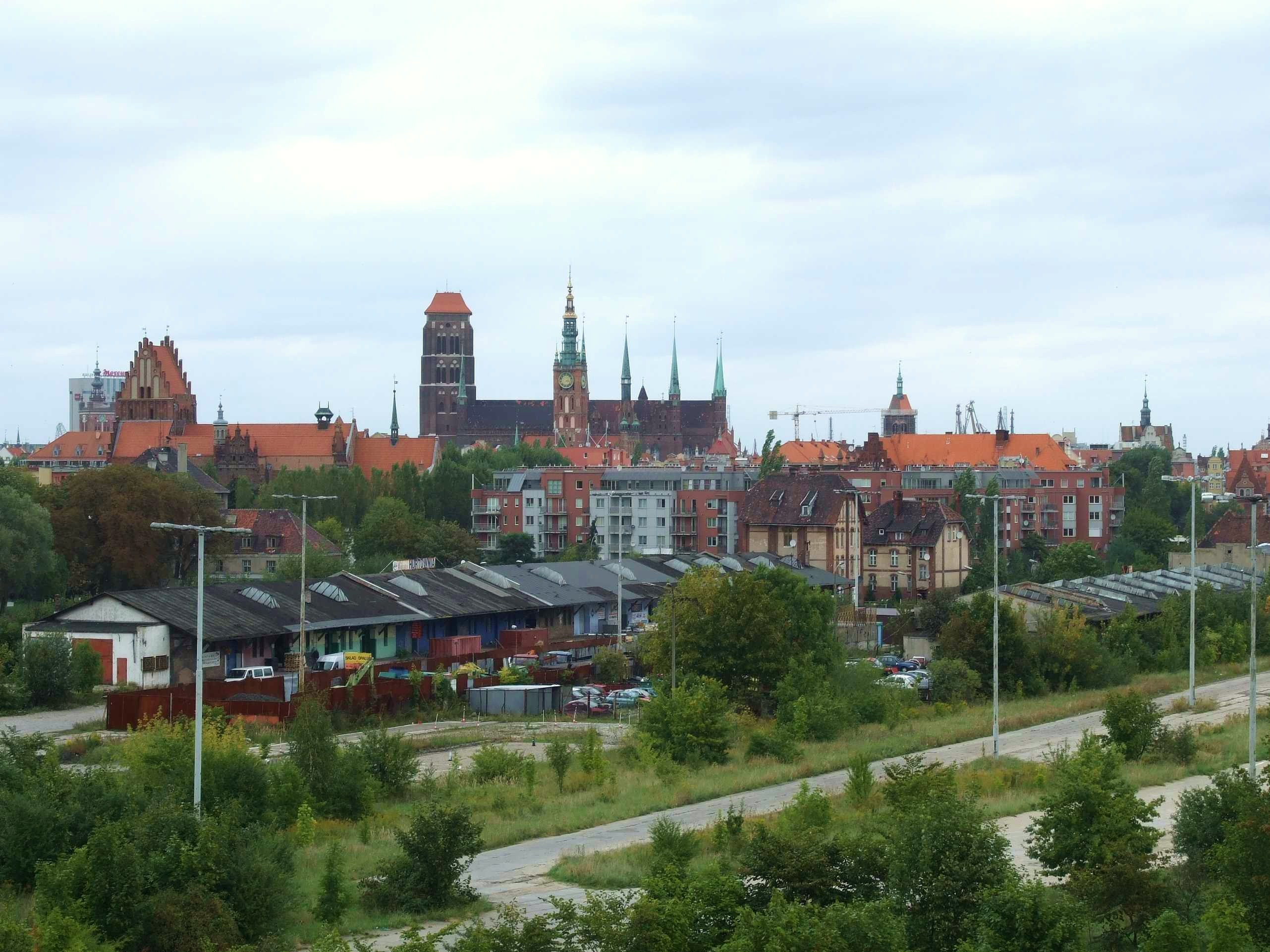 View of the old city from Gdańsk fortifications.